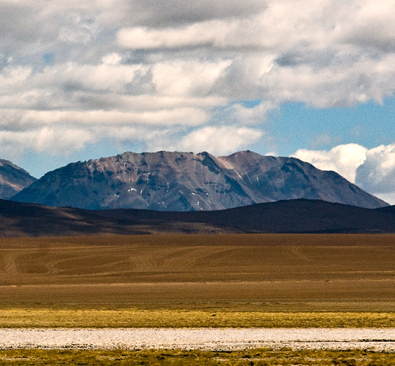 Cerro del Leon and Cerro Toconce, seen from the "Vado de Putana" bofedal